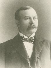 Former United States Representative from New York John Michael Clancy.